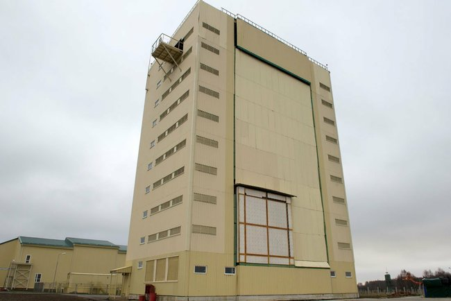 Voronezh-DM early warning radar in Kaliningrad, Russia, in November 2011. This is part finished - when completed the entire face should be full